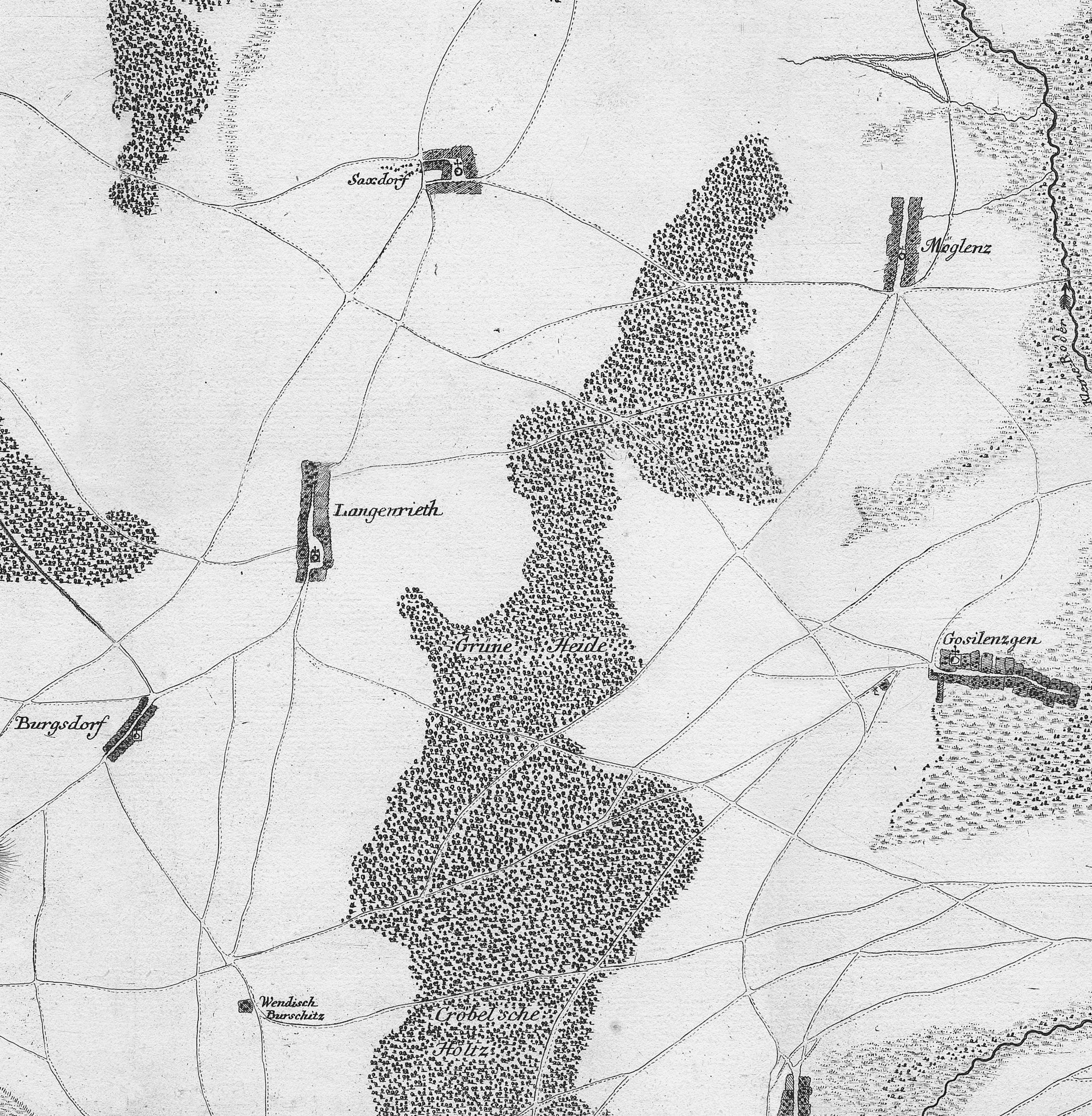 view of Mühlberg (from part Mühlberg) of the map "Situations und Cabinets=Carte von einem anderen Teile des Churfürstentums Sachsen" Major Isaak Jacob von Petri